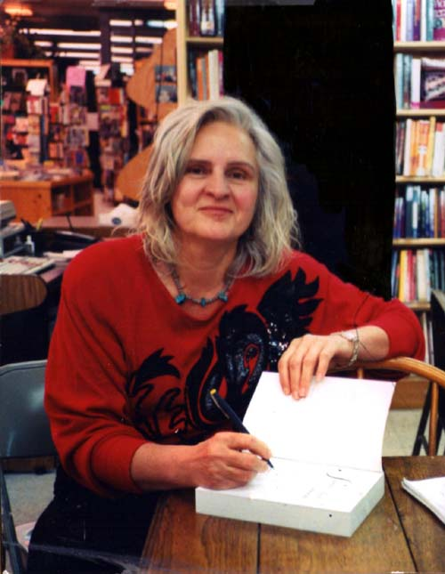 Penelope Rosemont at a book signing.